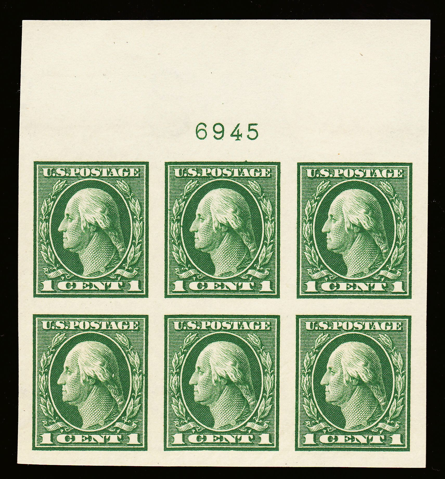 US Postage stamps, Washington Franklin issue of 1912, imperforate block of 6, w/plt#